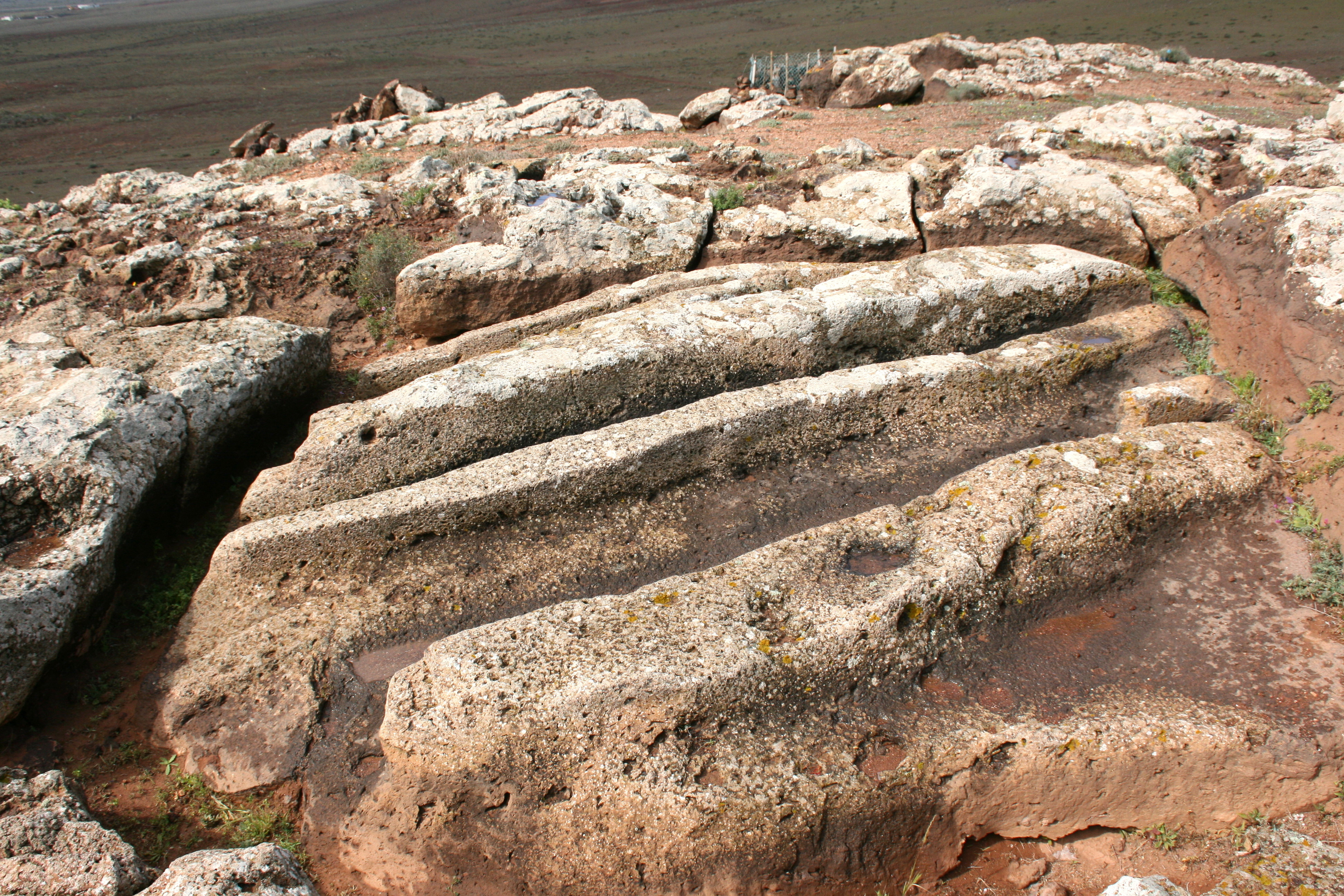 Quesera de Zonzamas at LZ-34 in Arrecife, Lanzarote, Canary Islands